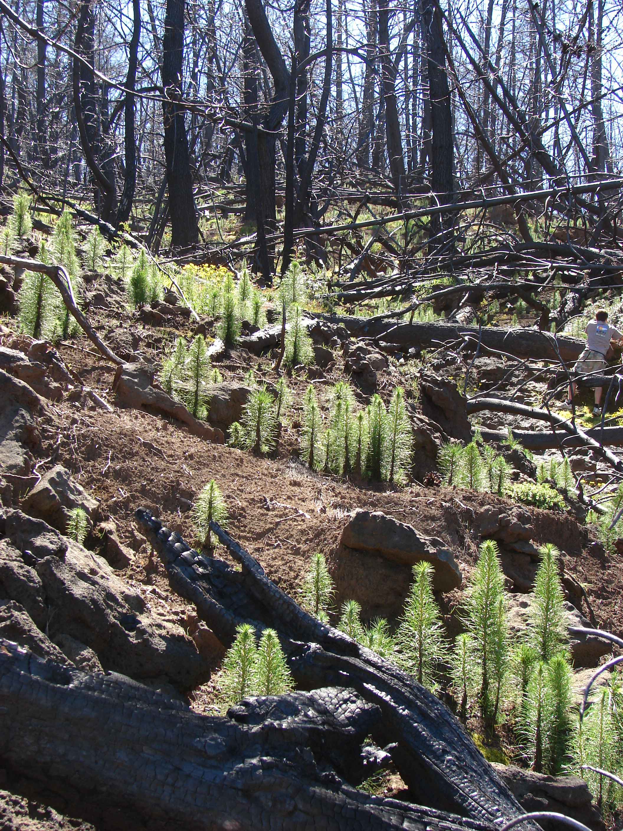 Pinus radiata (seedlings under burnt trees). Location: Maui, Polipoli